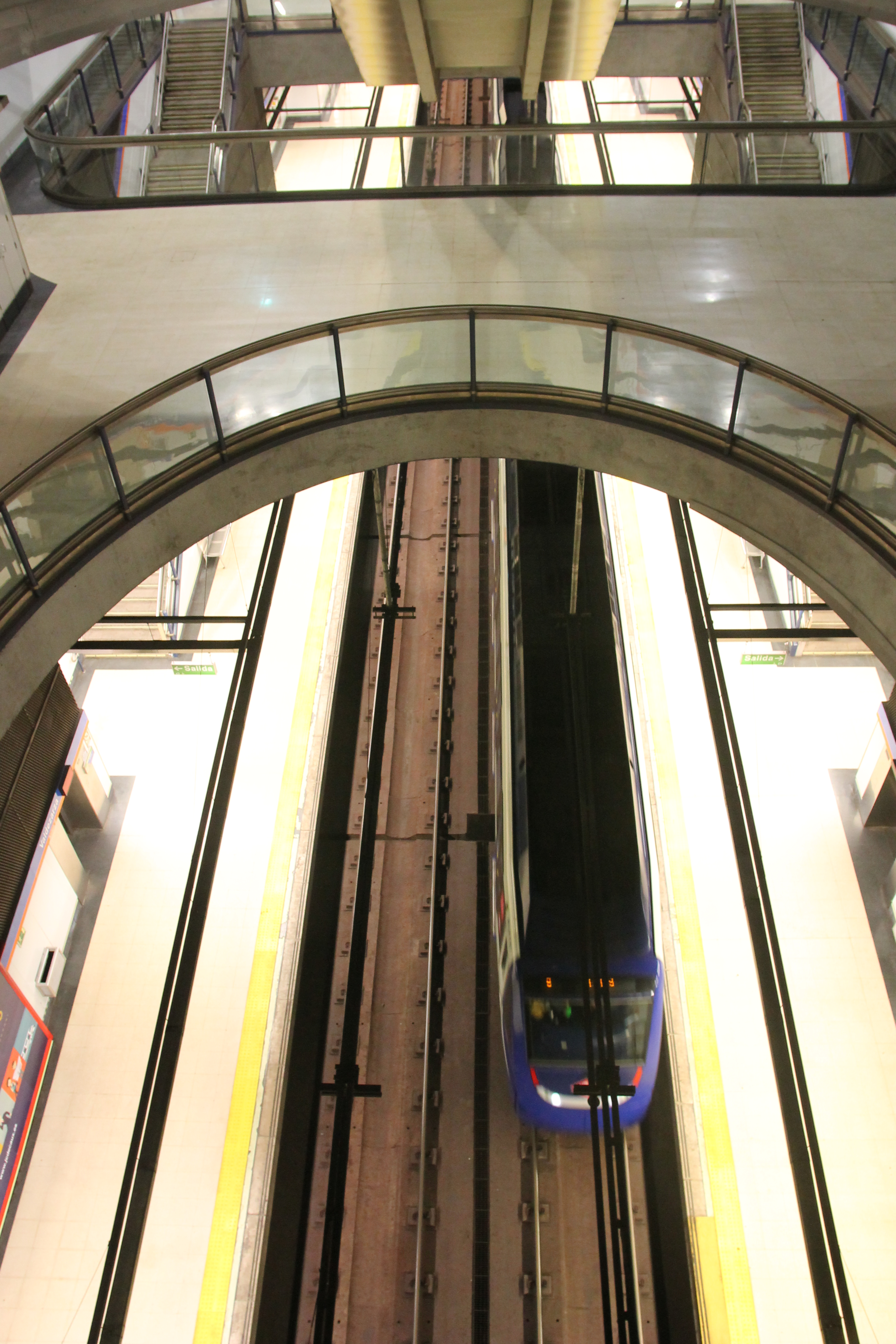 Estación de Valdezarza